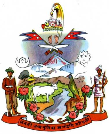 coat of arms of kingdom of nepal 1962–2008